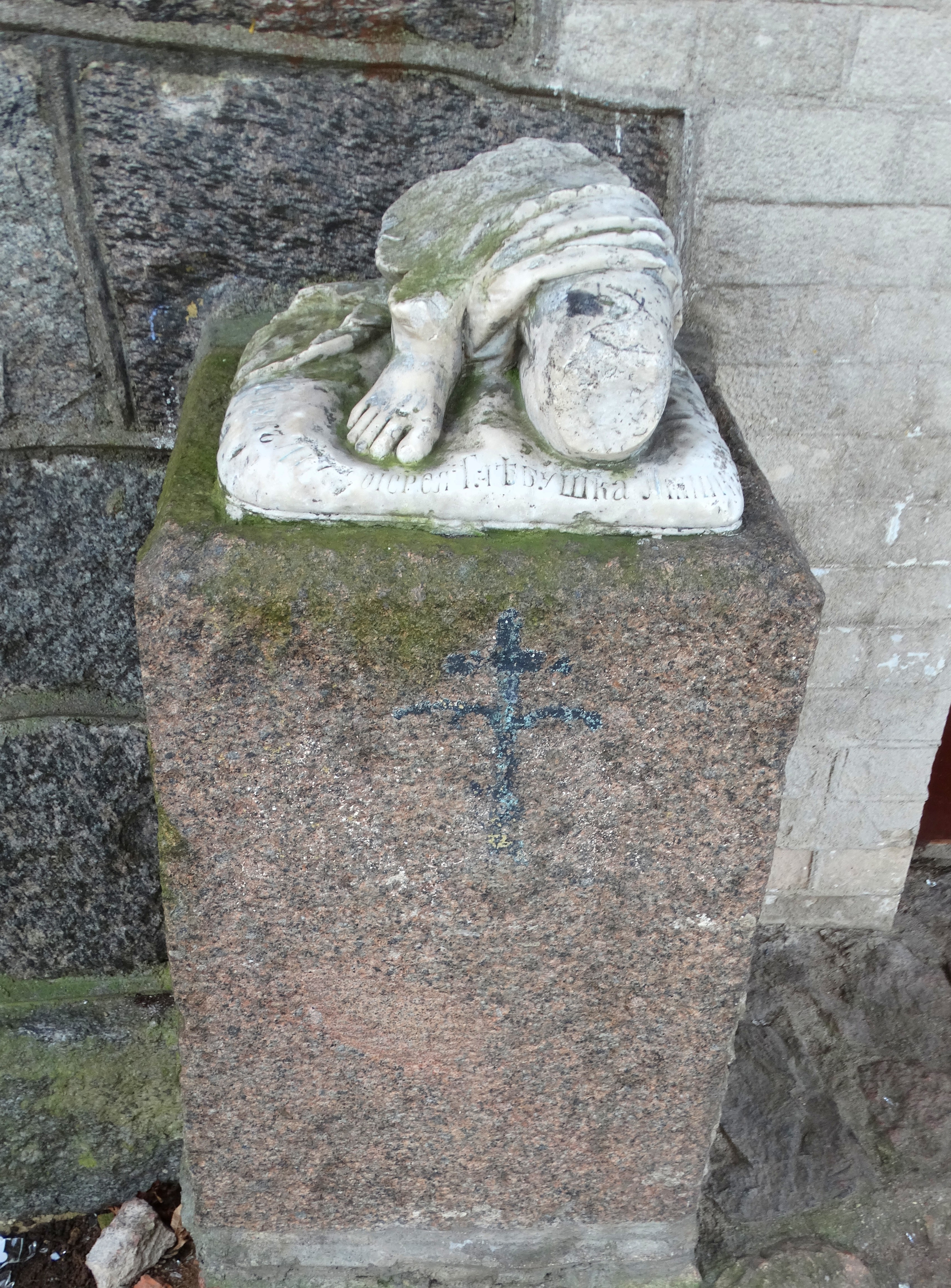 Saint Eleutherius Chapel, Kretinga, Lithuania